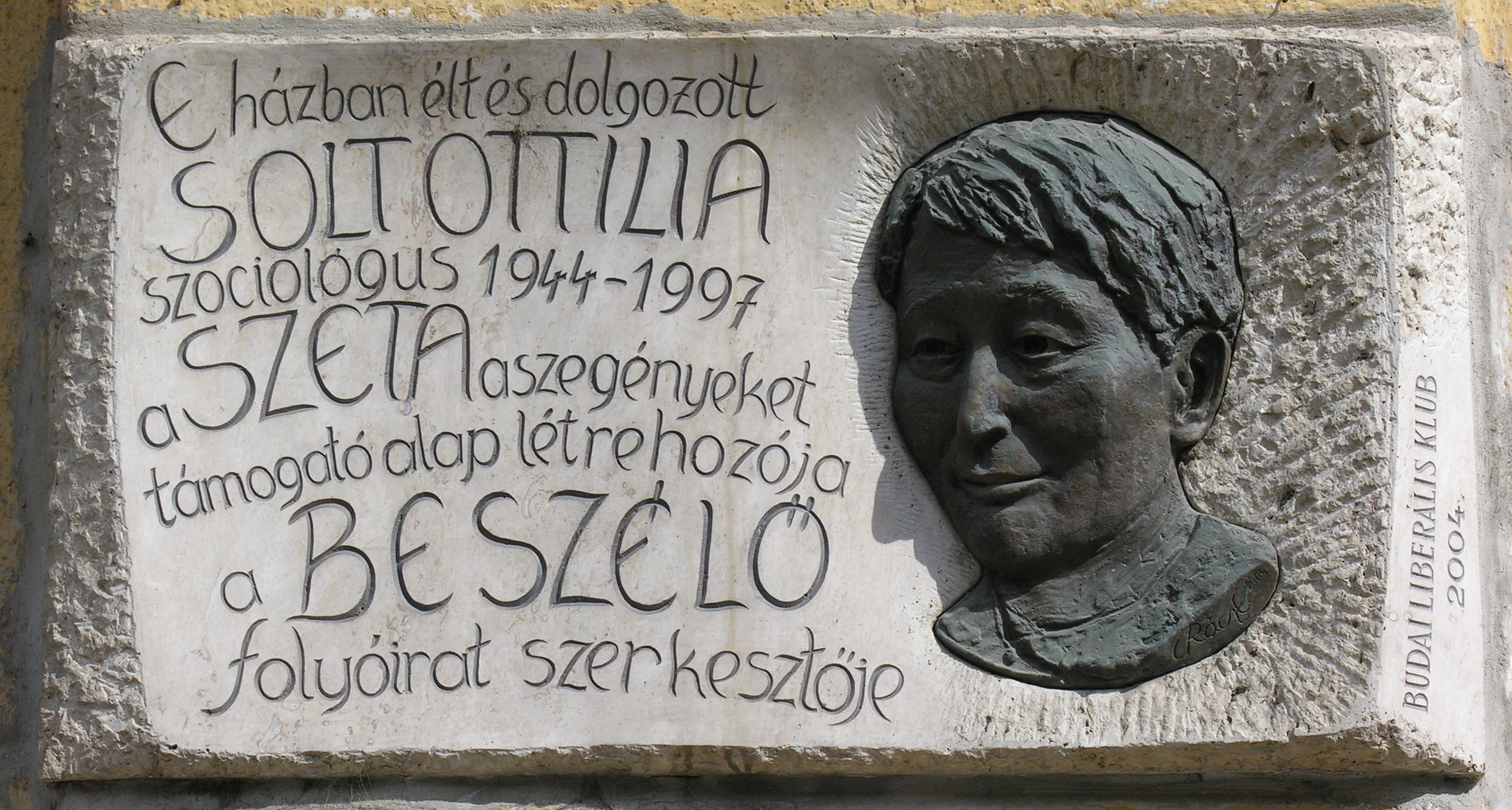 Commemorative plaque of Ottilia Solt in Budapest District II, Komjádi Béla Street No 3